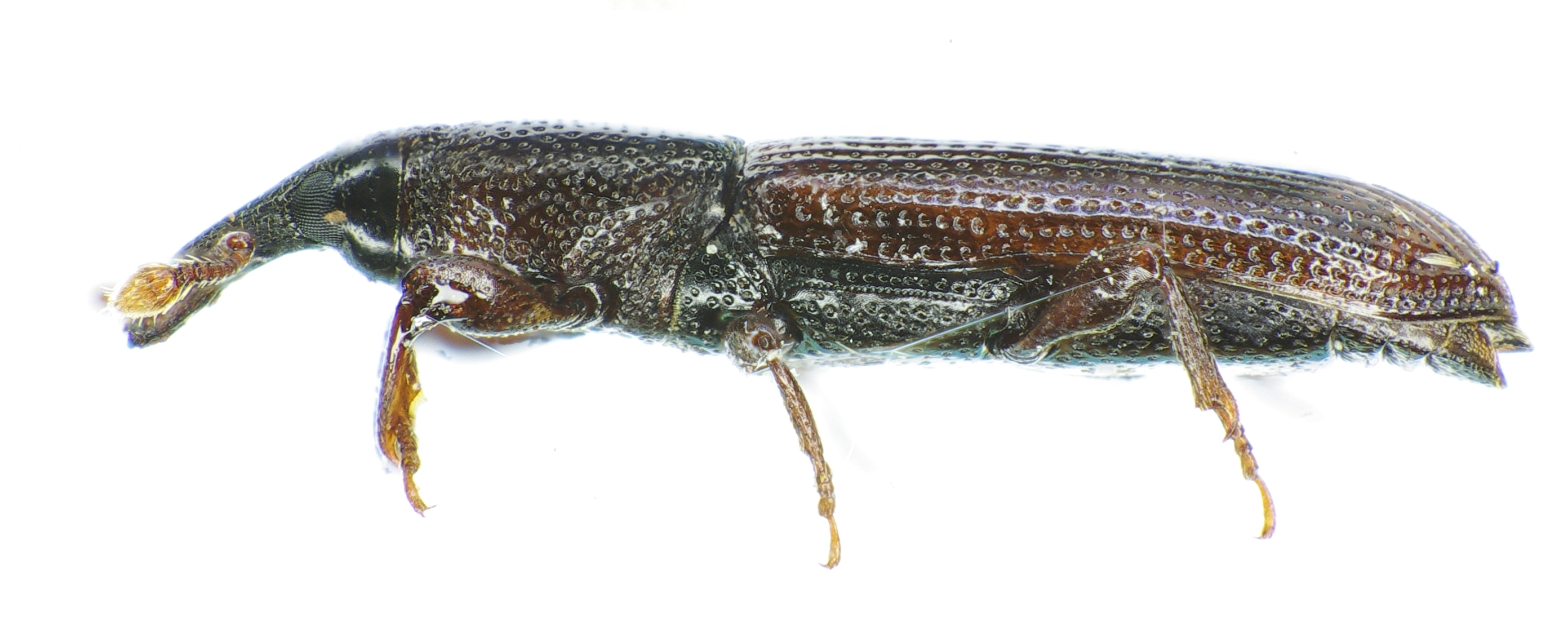 Cossonus linearis from Southern Germany